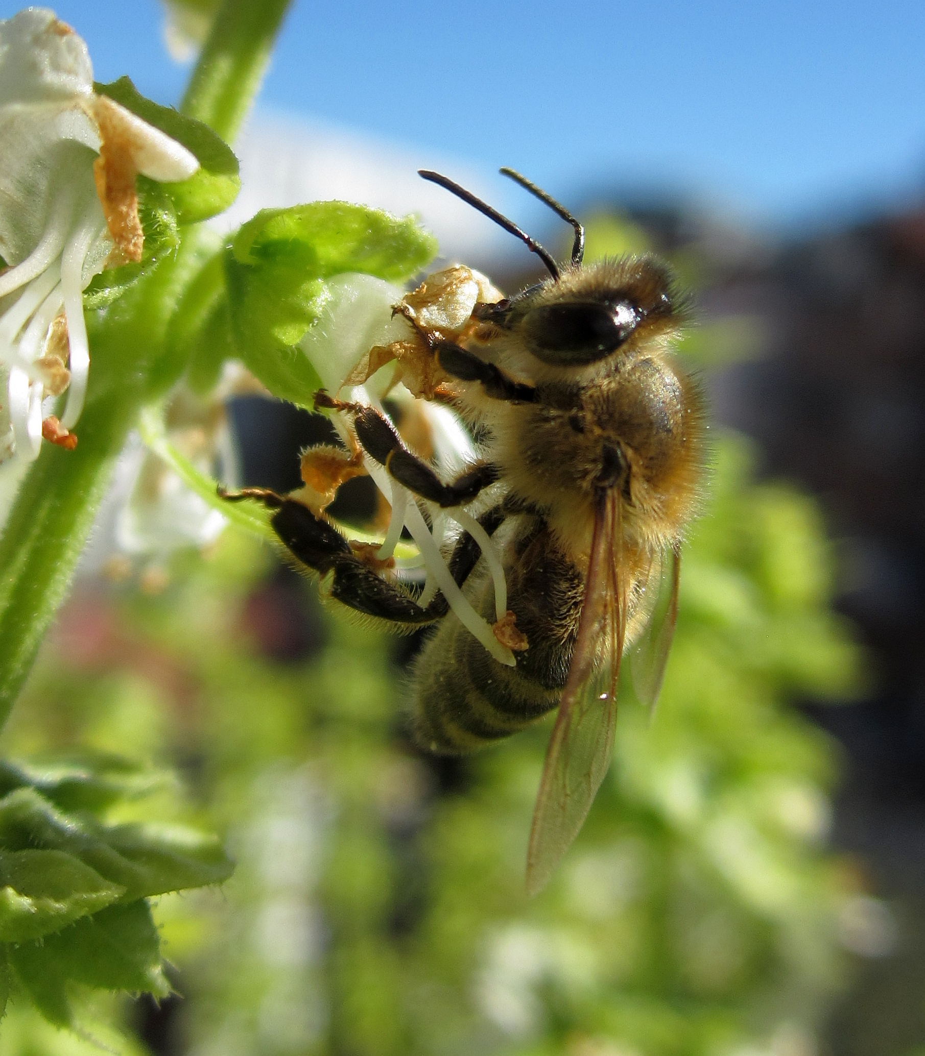 Bee foraging on Basil